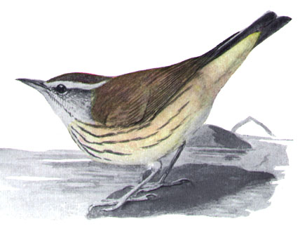 Louisiana Waterthrush, Parkesia motacilla, offset printing after painting (watercolor or acrylic?). Altered from original in plate.